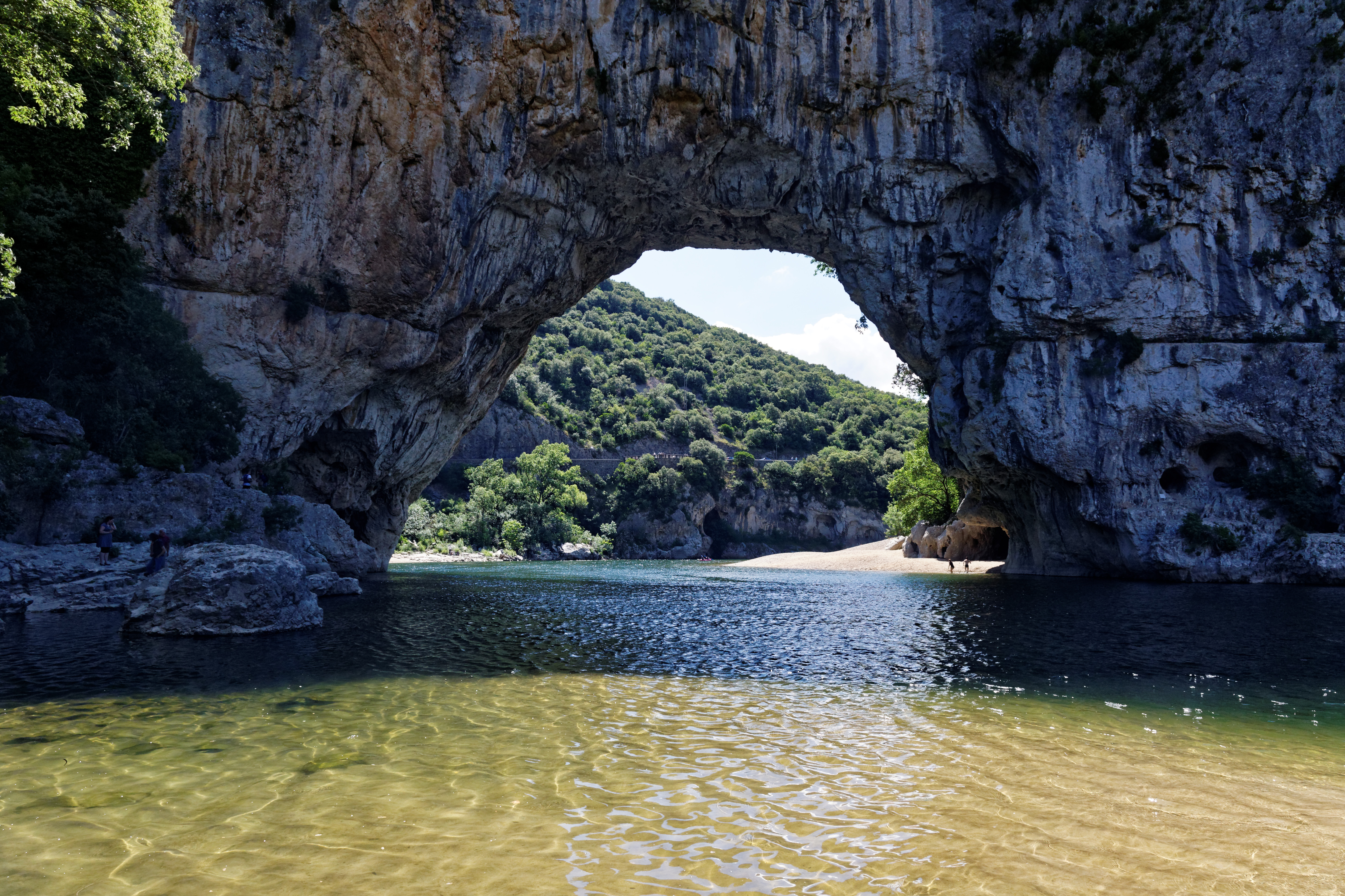 Pont d'Arc